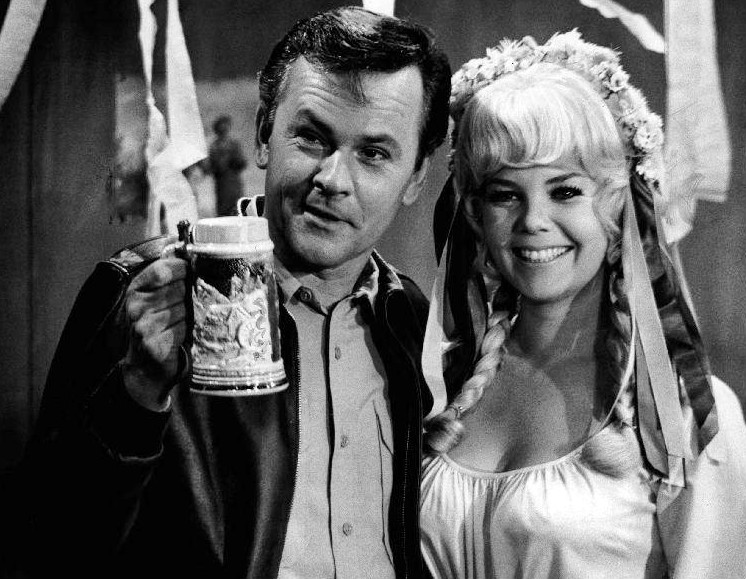 Photo of Bob Crane as Colonel Hogan and Sigrid Valdis as Fräulein Hilda from the television program Hogan's Heroes. Crane and Valdis married about a year after this photo was taken.